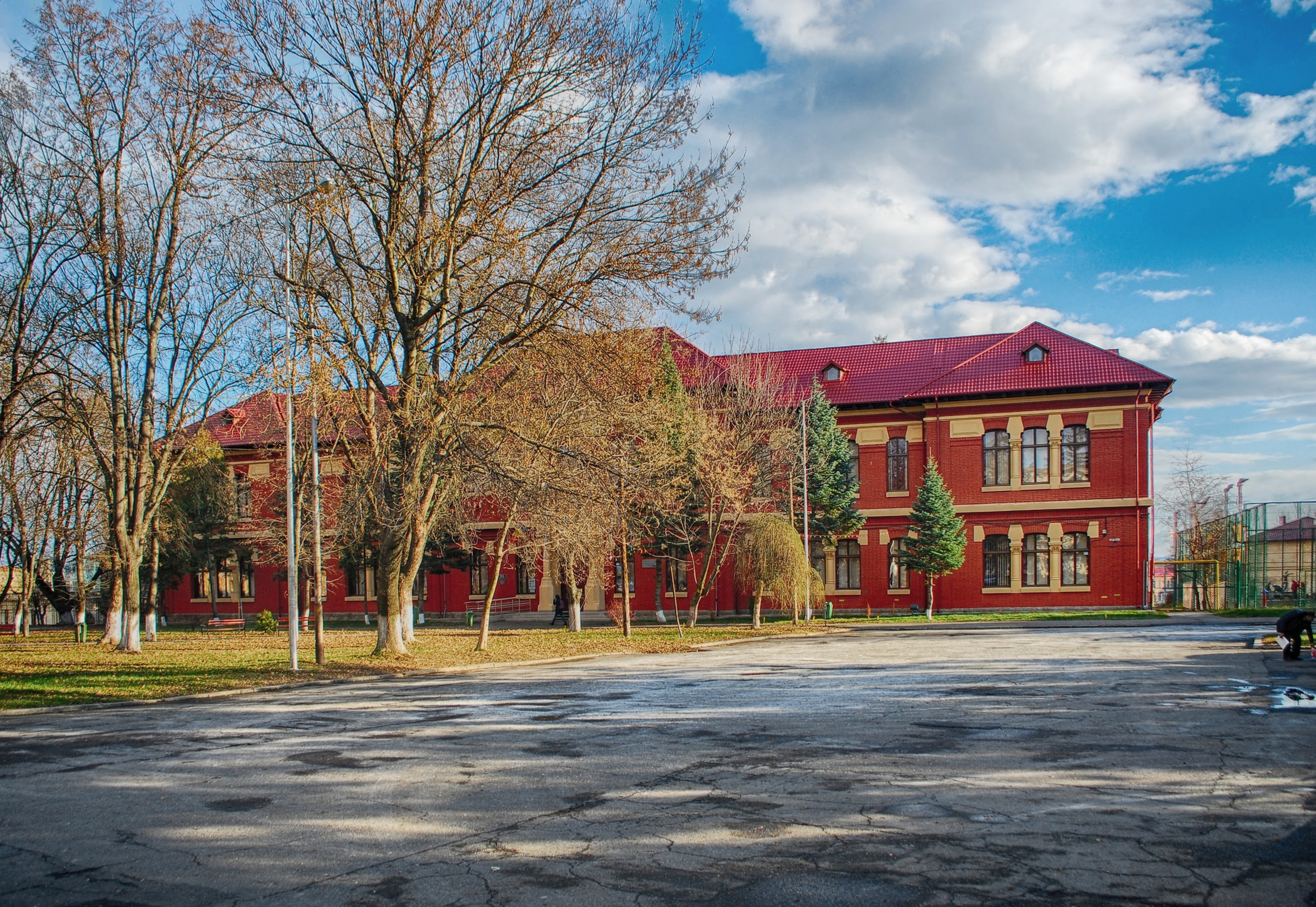 Main building of Roman Vodă high school in Roman, Romania